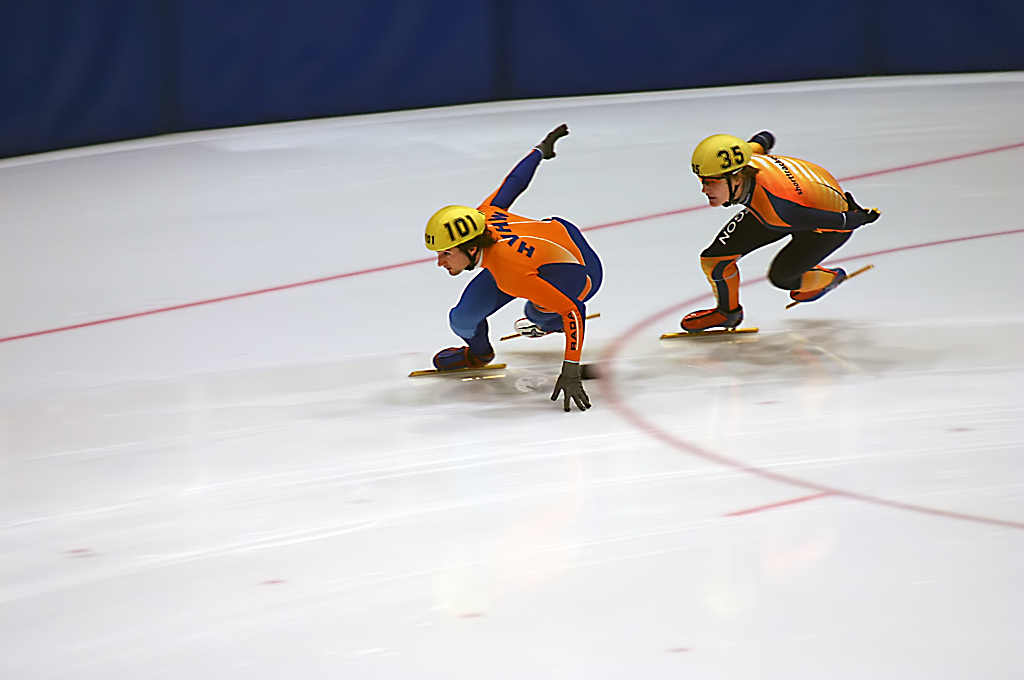 Niels Kerstholt and Mike Westerman during the 4th Nationale Competitie